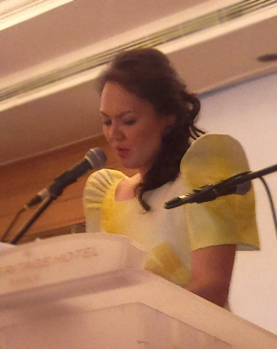 Gwendolyn Ecleo Mayor of Dinagat Municipality, Dinagat Islands, Philippines